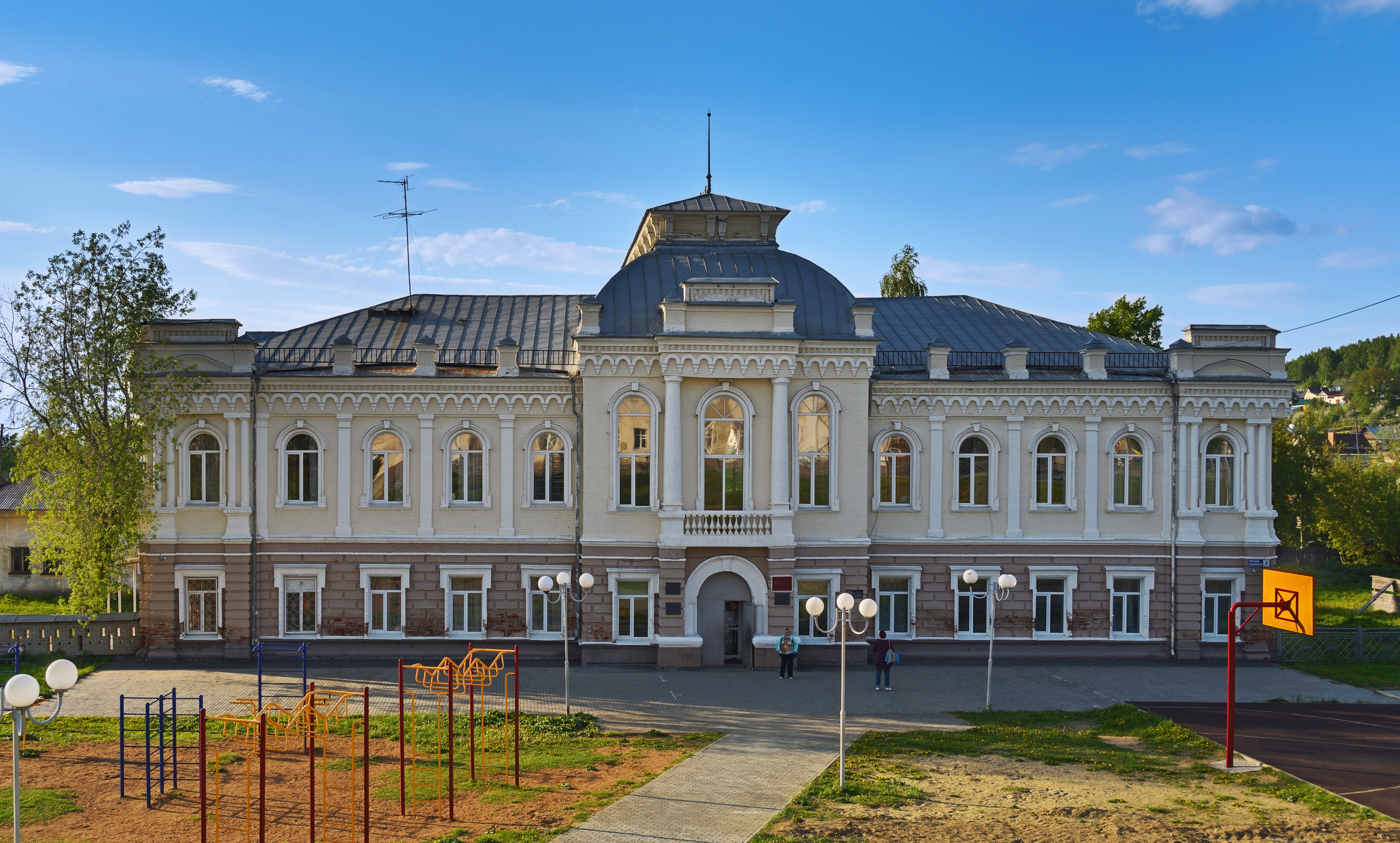 Revolyutsii square 8, Verkh-Neyvinsky, Sverdlovsk oblast, Russia